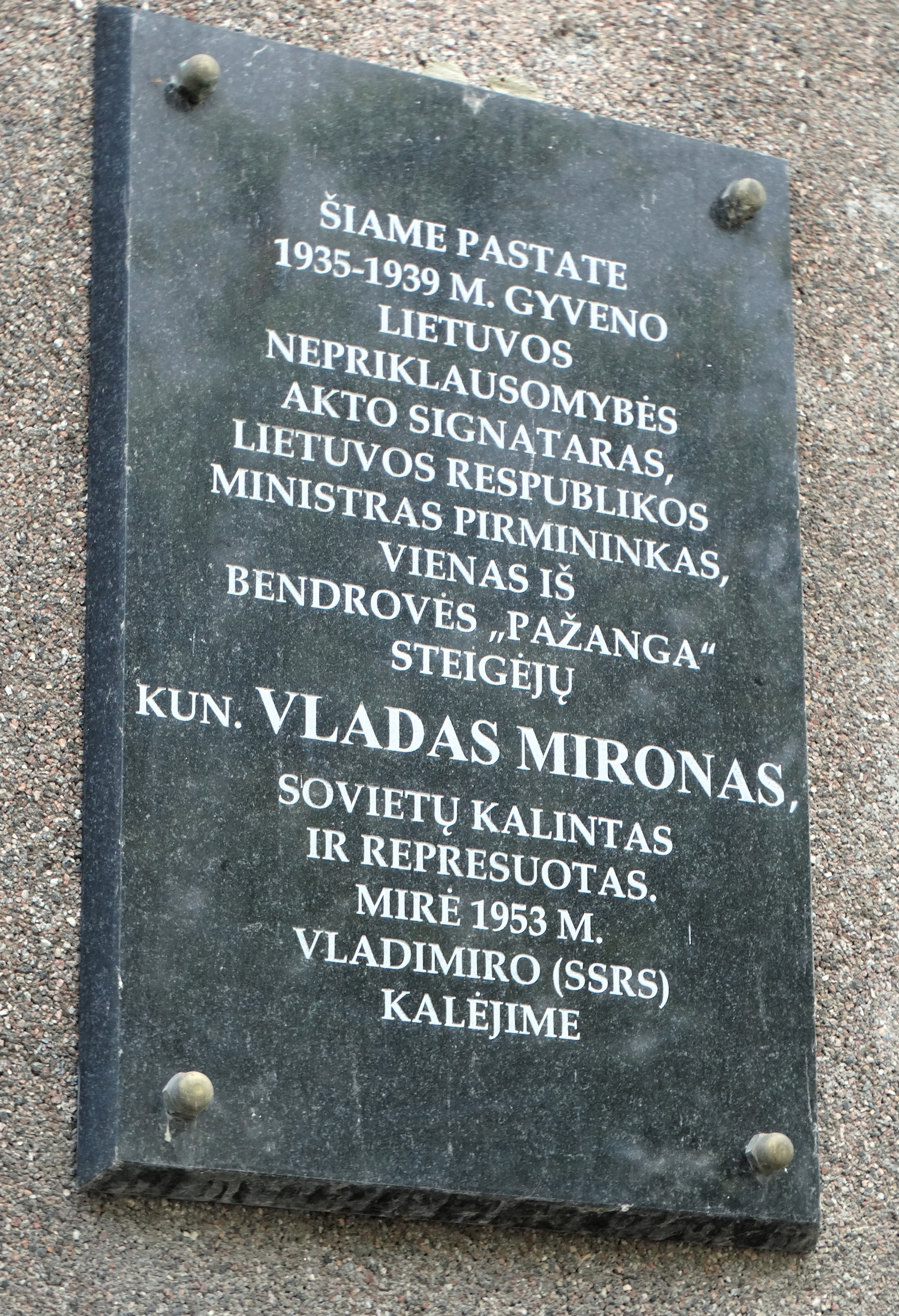 Memorial plaque to Vladas Mironas, Kaunas, Lithuania